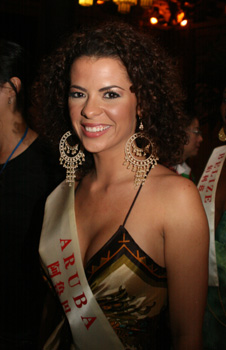 Miss Aruba 2007, Boyoura Martinj in Miss World 07